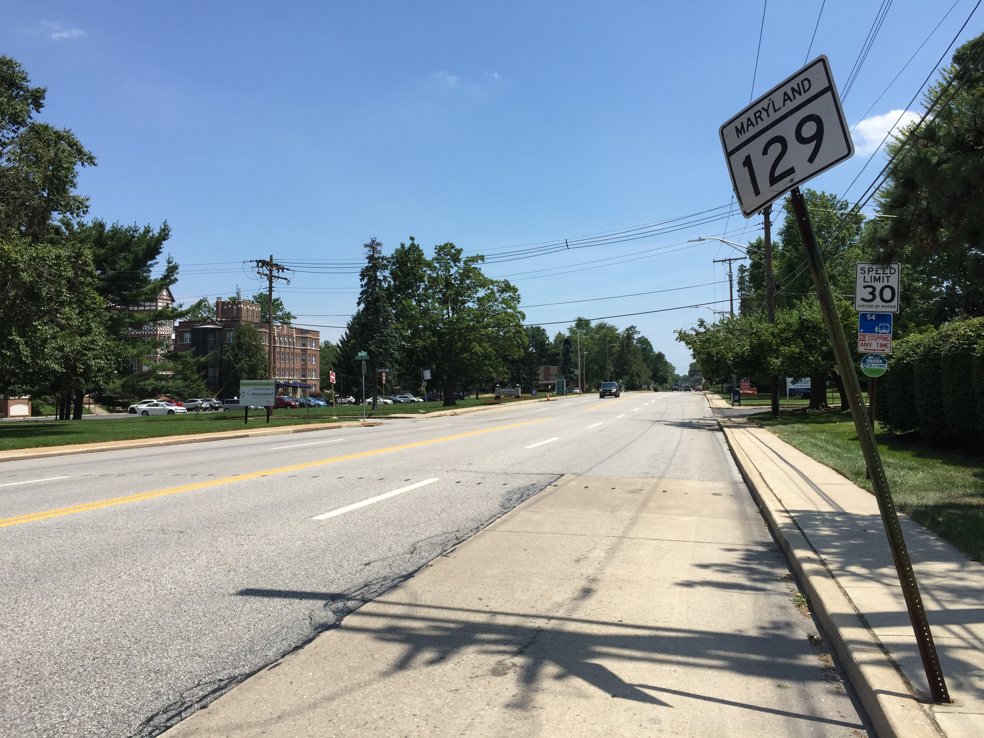 View south along Maryland State Route 129 (Park Heights Avenue) between Slade Avenue and Park Village Court in Baltimore City, Maryland